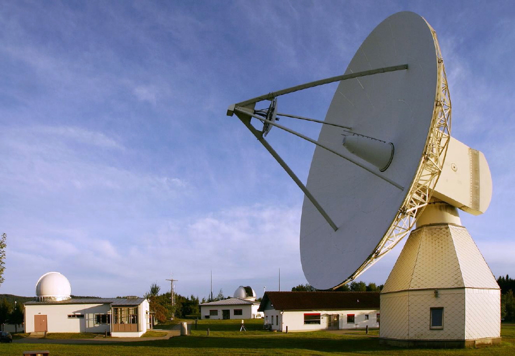 Geodetic Observatory and fundamental station Wettzell, Bavaria, Germany. The two domes at left an in the center house the Satellie Observing System Wettzell (SOS-W) and the Wettzell Laser Ranging System (WLRS), respectively. At right, the 20m disch of the Radiotelescope Wettzell (RTW) can be seen.